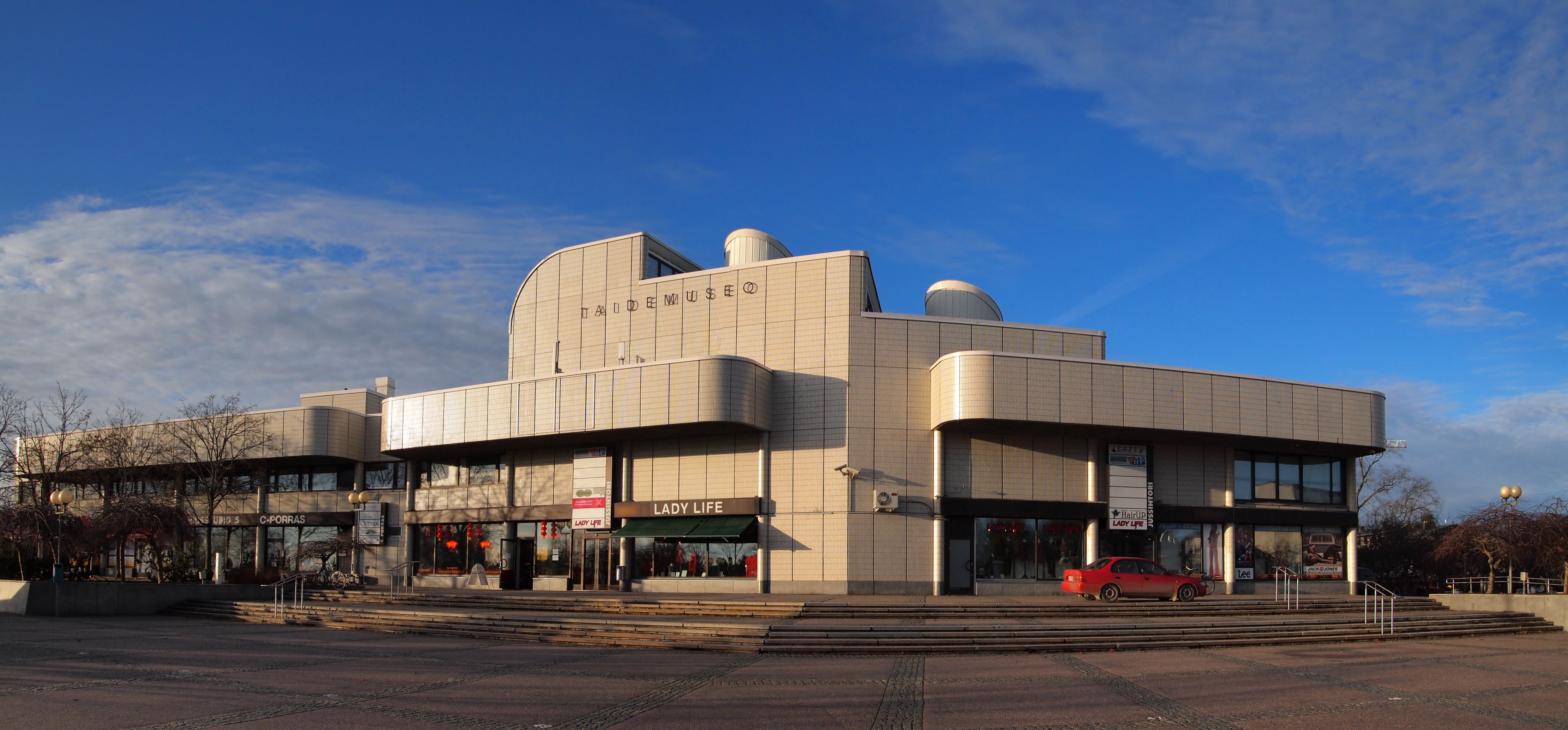 Building of the art museum in Hyvinkää.